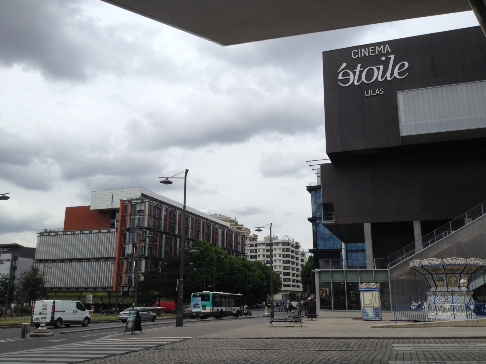 Vue depuis la gare de bus